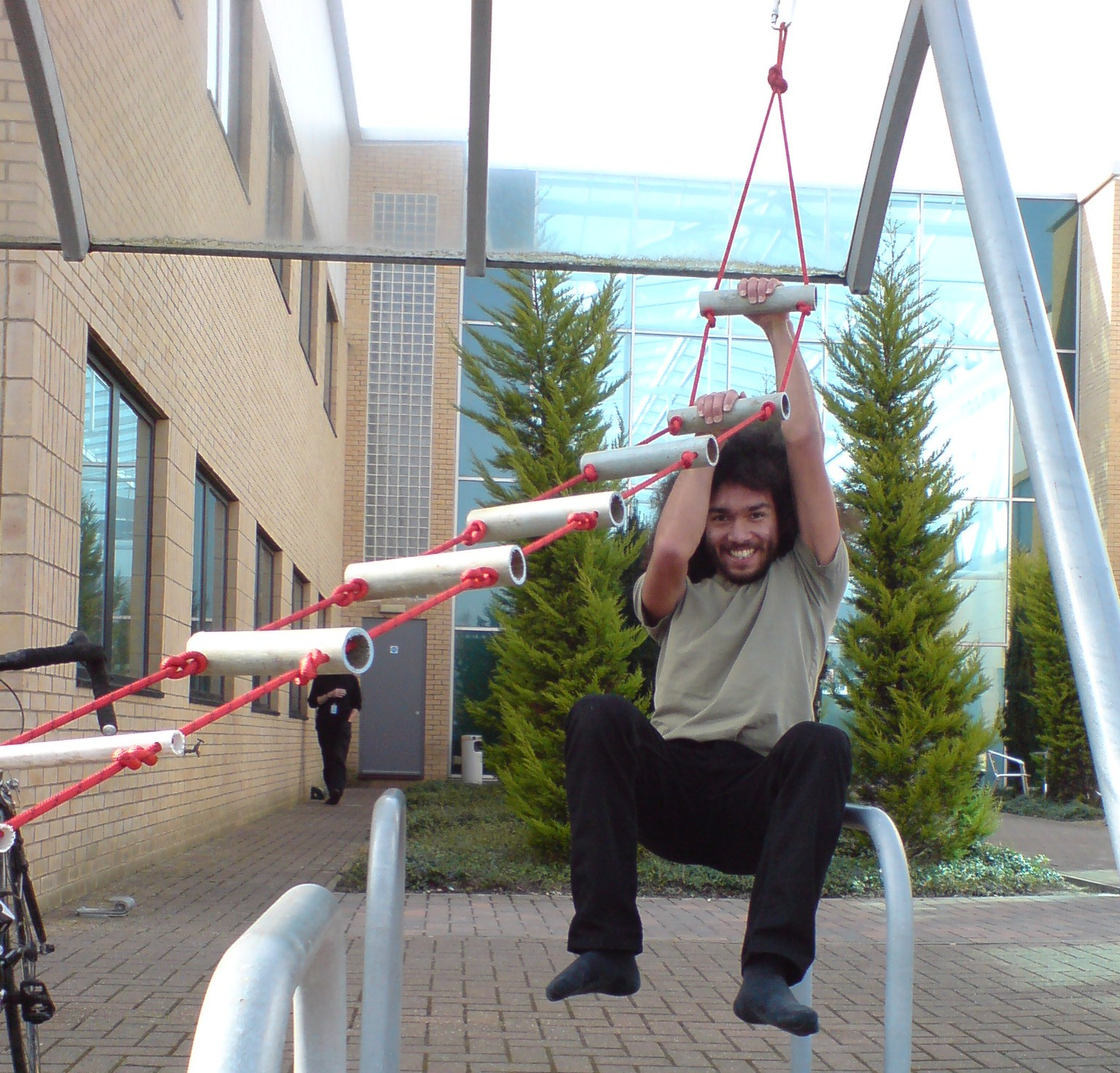 A picture of a man using a Bachar ladder